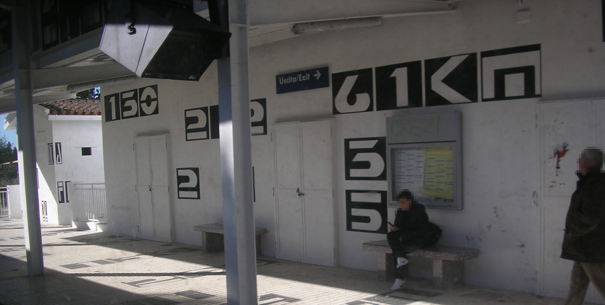 The Villaspeciosa-Uta railway halt, in Sardinia, Italy